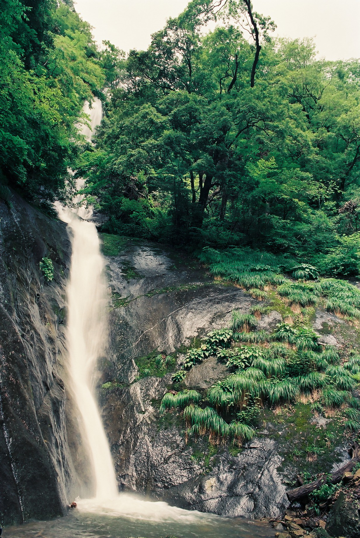 Saruo Falls is a waterfall in Muraoka-ku, Kami, Hyogo, Japan